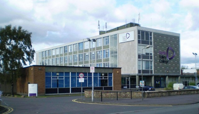 Forth Valley College Known to generations of students as "Falkirk Tech" this college gives HNC and vocational courses